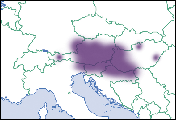 Aegopinella ressmanni (Westerlund, 1883). Distributional range in Europe, scientific state of knowledge of 2012. Source description in English. Light colour indicated rare occurrences or regions where the species could eventually be expected to occur. Dark colour indicated relatively reliable occurrences, as well as regions where the species was expected to occur, and where the species was not known to be extremely rare. Dark colour indications were not necessarily based on published records Species summary in AnimalBase